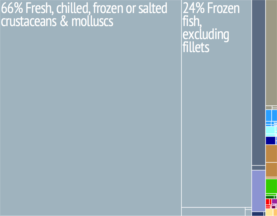 Export Trading Treemap. From MIT/Harvard Atlas of Economic Complexity